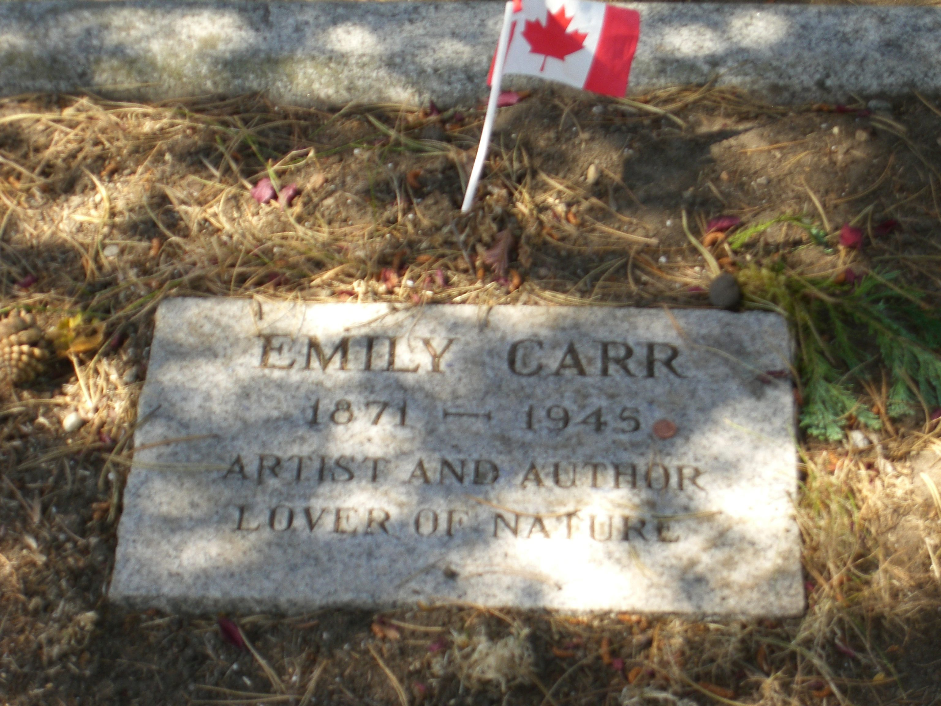 Grave marker of Emily Carr at Ross Bay Cemetery, Victoria BC.